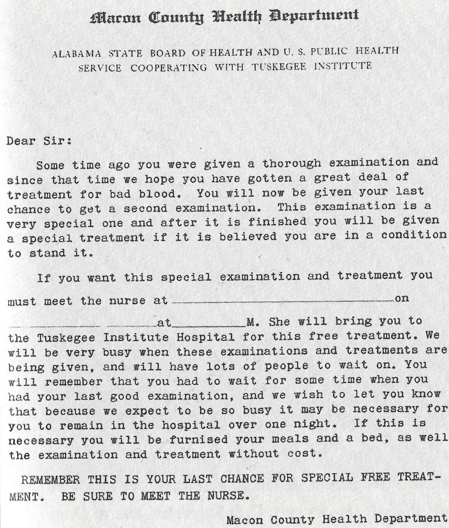 Letter inviting Participants of the Tuskegee Syphilis study to attend for "special treatment" which was actually a diagnostic spinal tap. US government material.